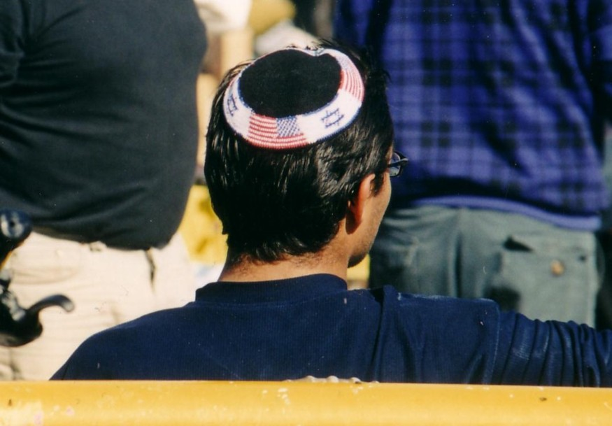 Yarmulka with Israeli and American flags